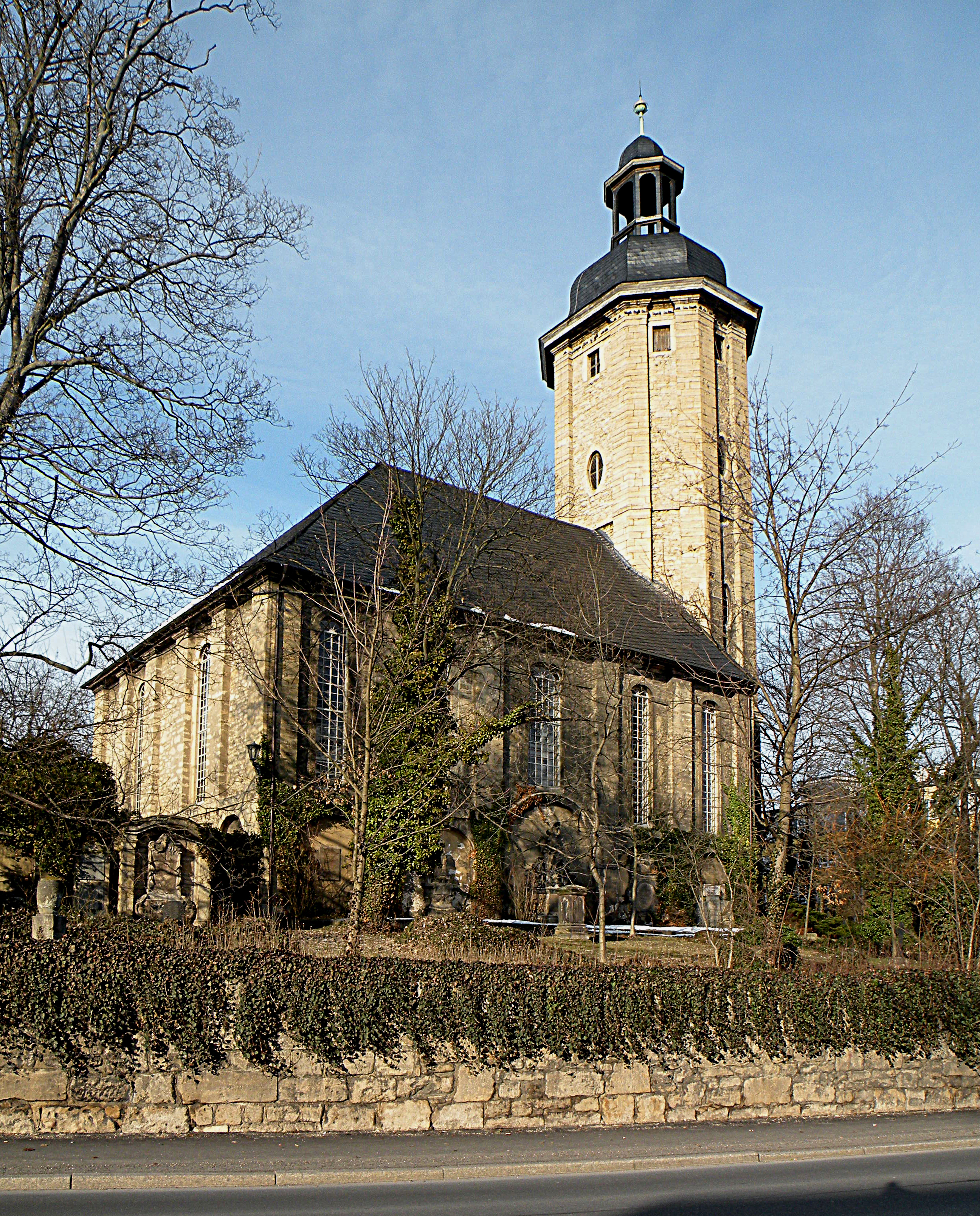 Friedenskirche (Peace Church) in Jena, Germany